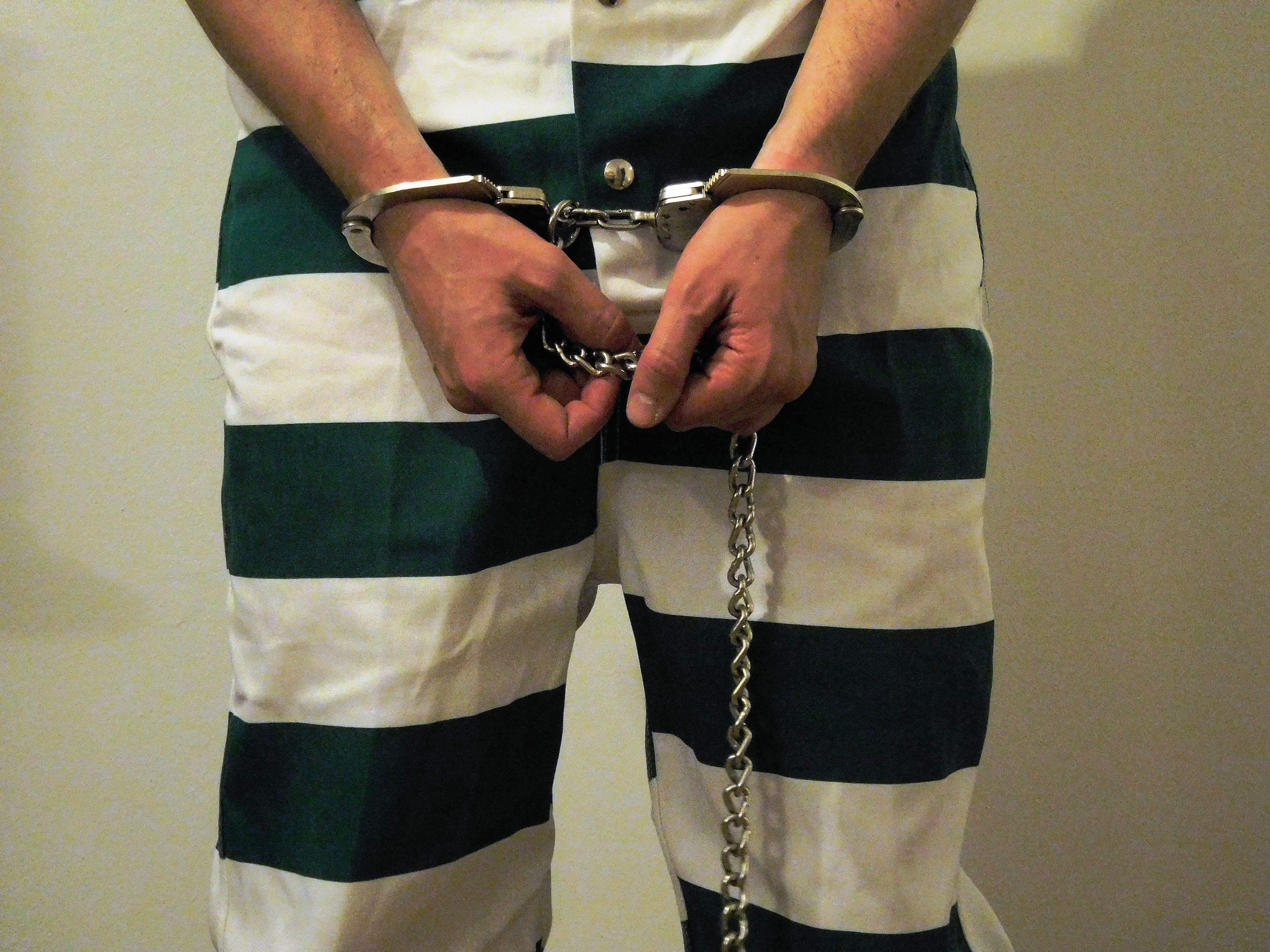 Prisoner in Smith & Wesson Model 1850 transport restraint chains. These consist of a pair of Model 1 handcuffs joined together with a pair of Model 1900 leg irons by a chain running down from the handcuffs to the leg irons.